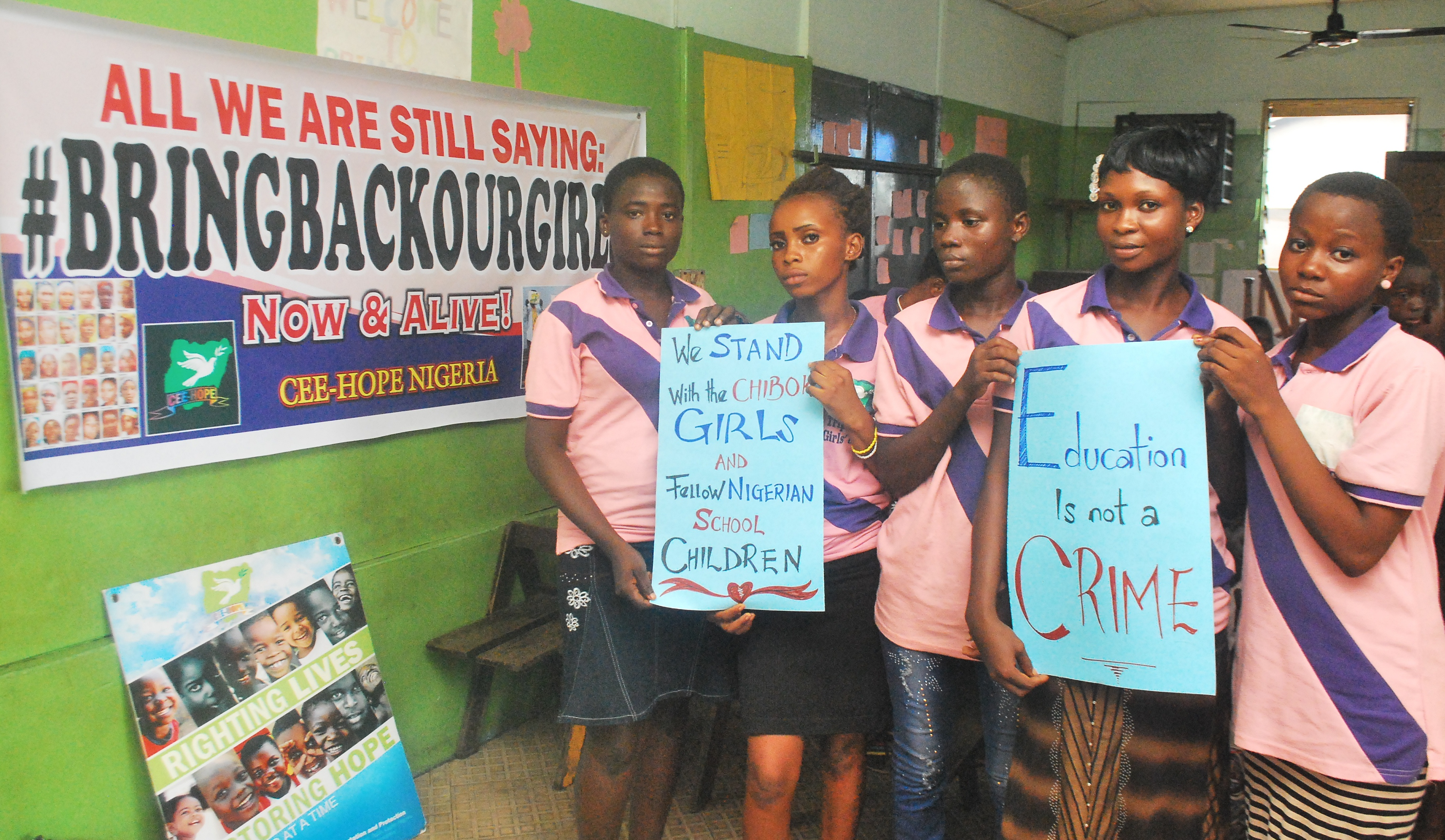 An event to commemorate the first anniversary of the abduction of Chibok school girls in northern Nigeria held by CEE-HOPE in Makoko, Lagos Nigeria.